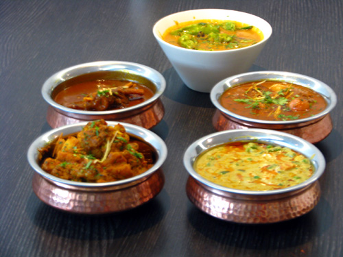 Indian curries